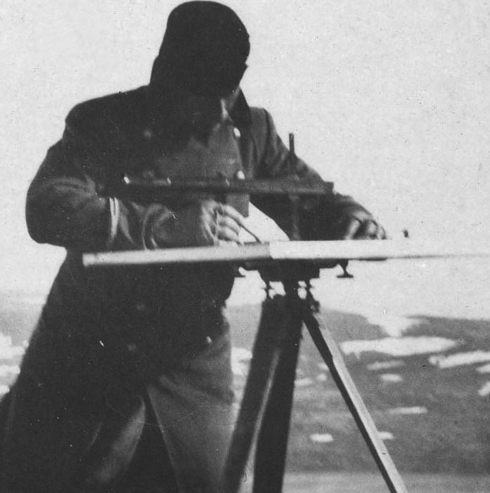 "Maalebord" - Old surveying instrument in use (1906)